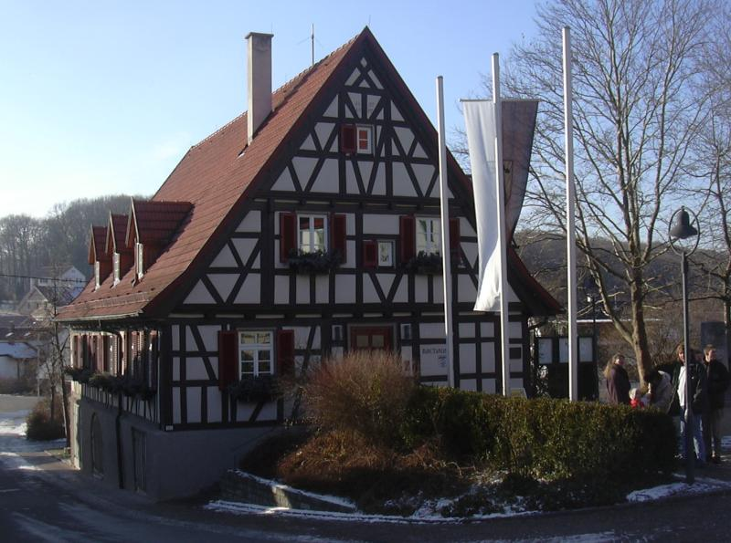 Town hall in Holzmaden, Germany